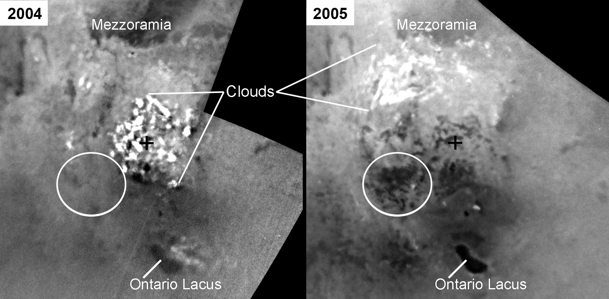 These mosaics of the south pole of Saturn’s moon Titan, made from images taken almost one year apart, show changes in dark areas that may be lakes filled by seasonal rains of liquid hydrocarbons. The image on the left was acquired July 3, 2004. That on the right was taken June 6, 2005. In the 2005 image, new dark areas are visible and have been circled in the labeled version. The very bright features are clouds in the lower atmosphere (the troposphere). Titan's clouds behave similarly to those on Earth, changing rapidly on timescales of hours and appearing in different places from day to day. During the year that elapsed between these two observations, clouds were frequently observed at Titan's south pole by observers on Earth and by Cassini’s imaging science subsystem (see PIA06124). It is likely that rain from a large storm created the new dark areas that were observed in June 2005. Some features, such as Ontario Lacus, show differences in brightness between the two observations that are the result of differences in illumination between the two observations. These mosaics use images taken in infrared light at a wavelength of 938 nanometers. The images have been oriented with the south pole in the center (black cross) and the 0 degree meridian toward the top. Image resolutions are several kilometers (several miles). The original NASA image has been cropped to remove the versions of the images without labels.